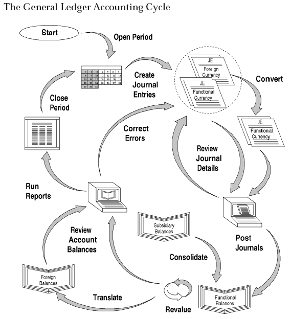 Oracle General Ledger Accounting cycle